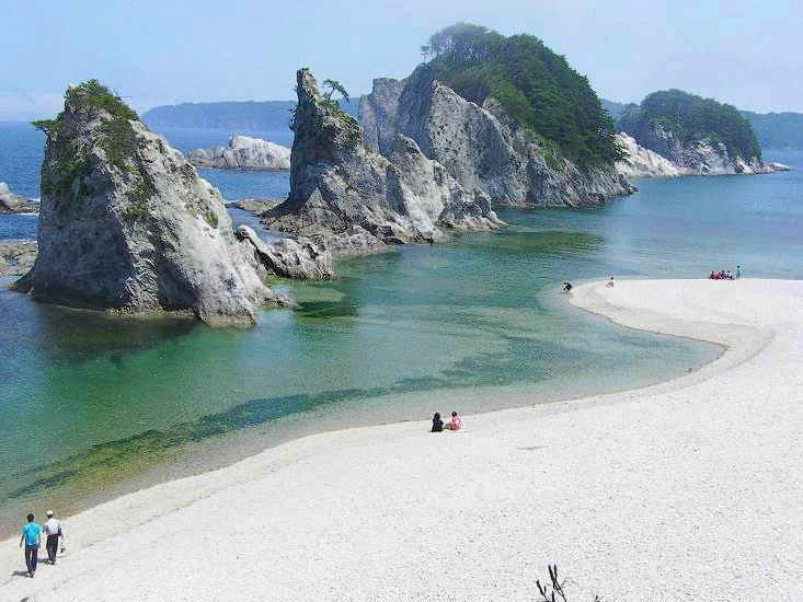 Joudogahama: Miyako-city, Iwate prefecture, Japan